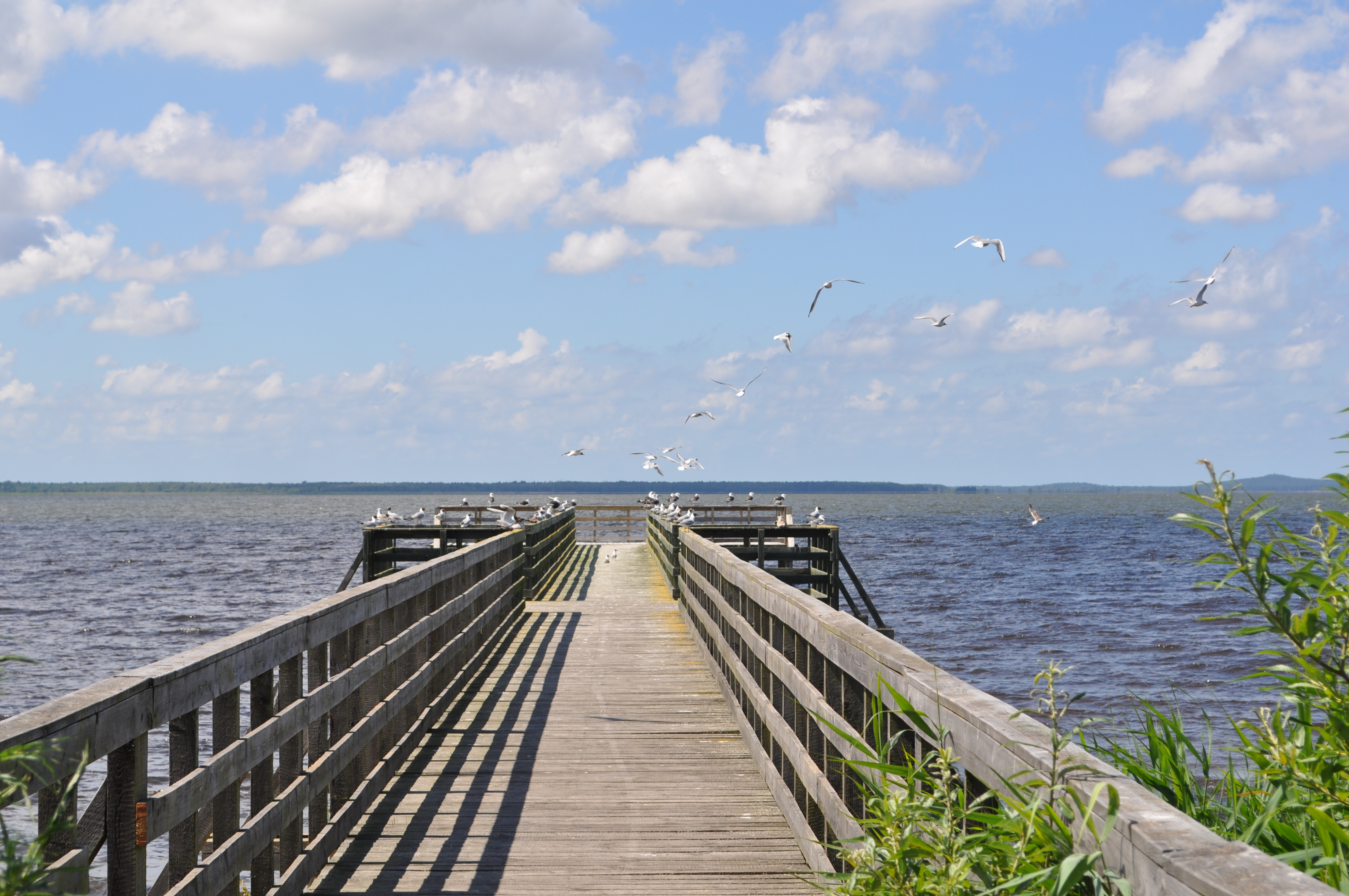 Łebsko lake